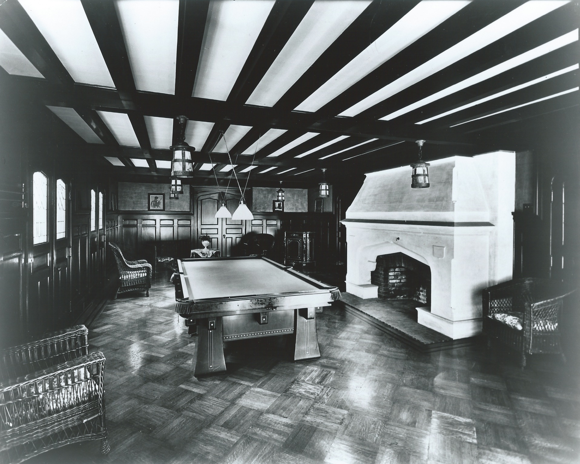 Billard room (circa 1930), Marius Dufresne House, 4040 Sherbrooke Street East, Montreal, Quebec, Canada.